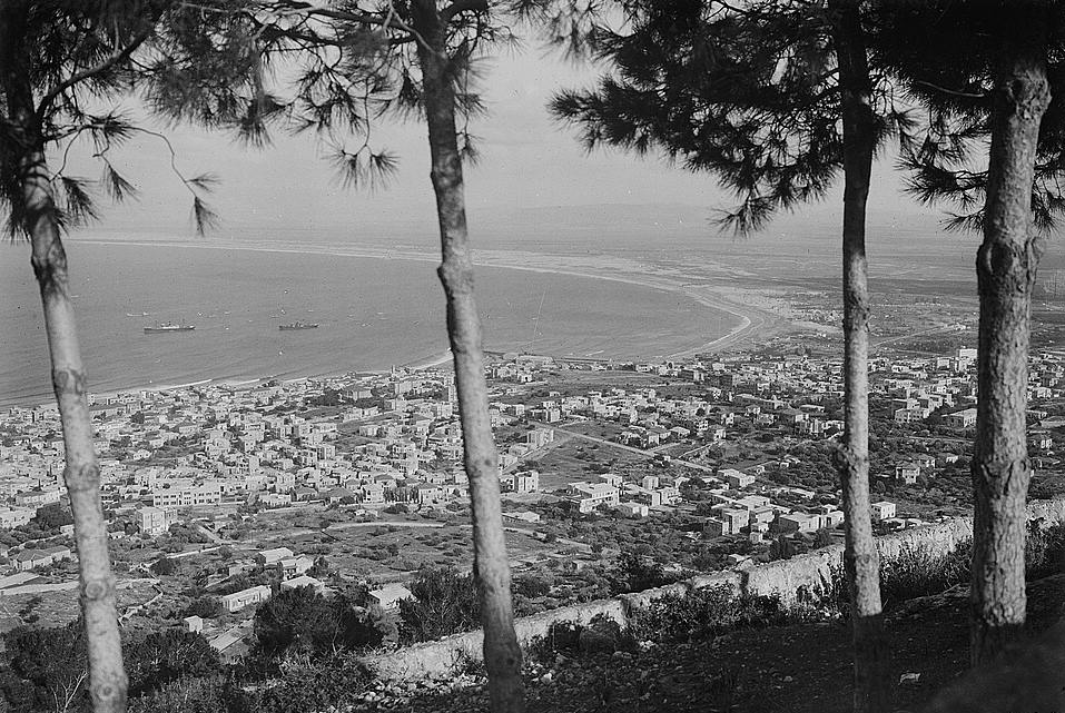 Haifa and Zvulun Valley ,Israel